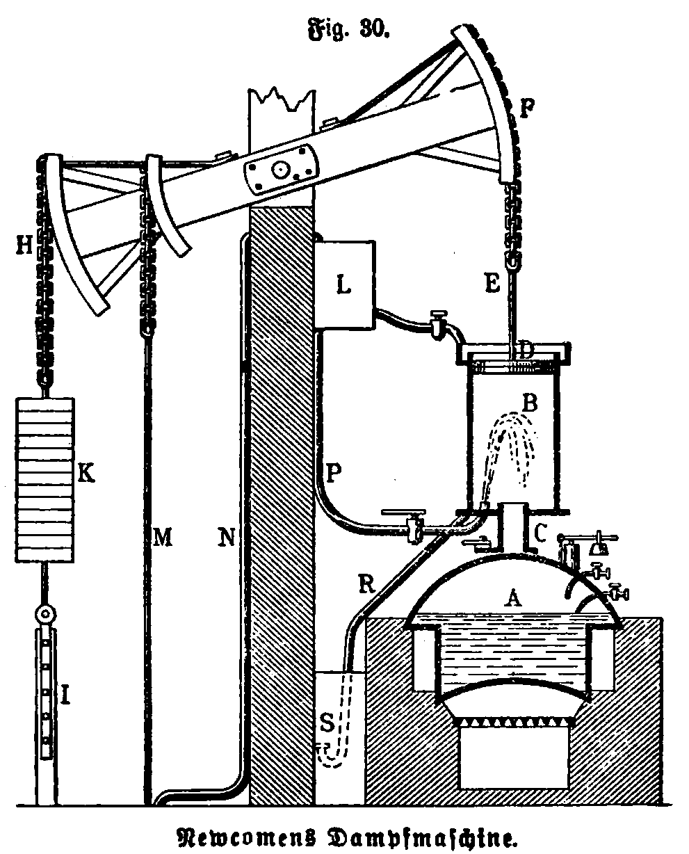 Newcomen beam engine. The steam is produced in the boiler A and reaches the cylinder B through the pipe C. The steam in the cylinder forces the piston D upwards, like in Papin’s invention, assisted by the counterweight K. At the piston D the force is coupled via the fixed rod E and in turn by a chain to the beam F. The counterweight K is attached via the chain H to the other side of the beam. The pump rod I is rigidly coupled to the base of the counterweight, being pushed up and down by the corresponding movements of the counterweight. By stopping the flow of steam through pipe C, by use of the stopcock, the contents of the cylinder are closed off. Water from the reservoir L is injected into the cylinder via the pipe P. (This point in the cycle is shown in the illustration). The injected water speeds up condensation of the steam in the cylinder, causing a vacuum. The piston is pushed downward by the air pressure from outside, moving the mechanically coupled beam F as well. This movement lifts the counterweight K and the coupled pump rod I upwards. The pipe R takes away the condensed water, S marks the section of the U-shaped pipe submerged in the reservoir, closing off the cylinder in a steam tight manner. M is the linkage of a small aŭiliary pump which fills the reservoir L through the pipe N. In the original implementation, the stopcocks were operated manually.